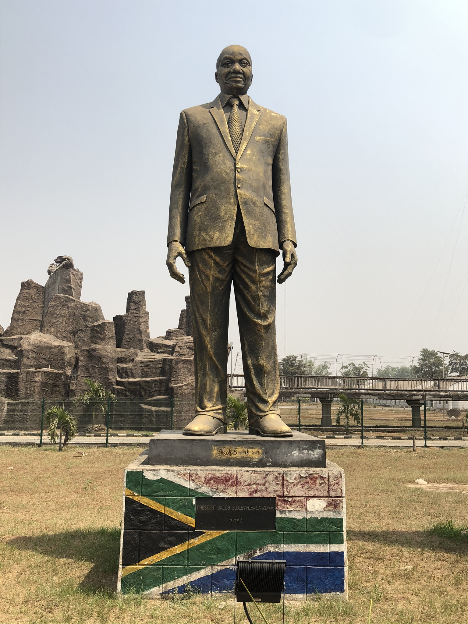 Statue Tourist attraction in Owerri Imo State